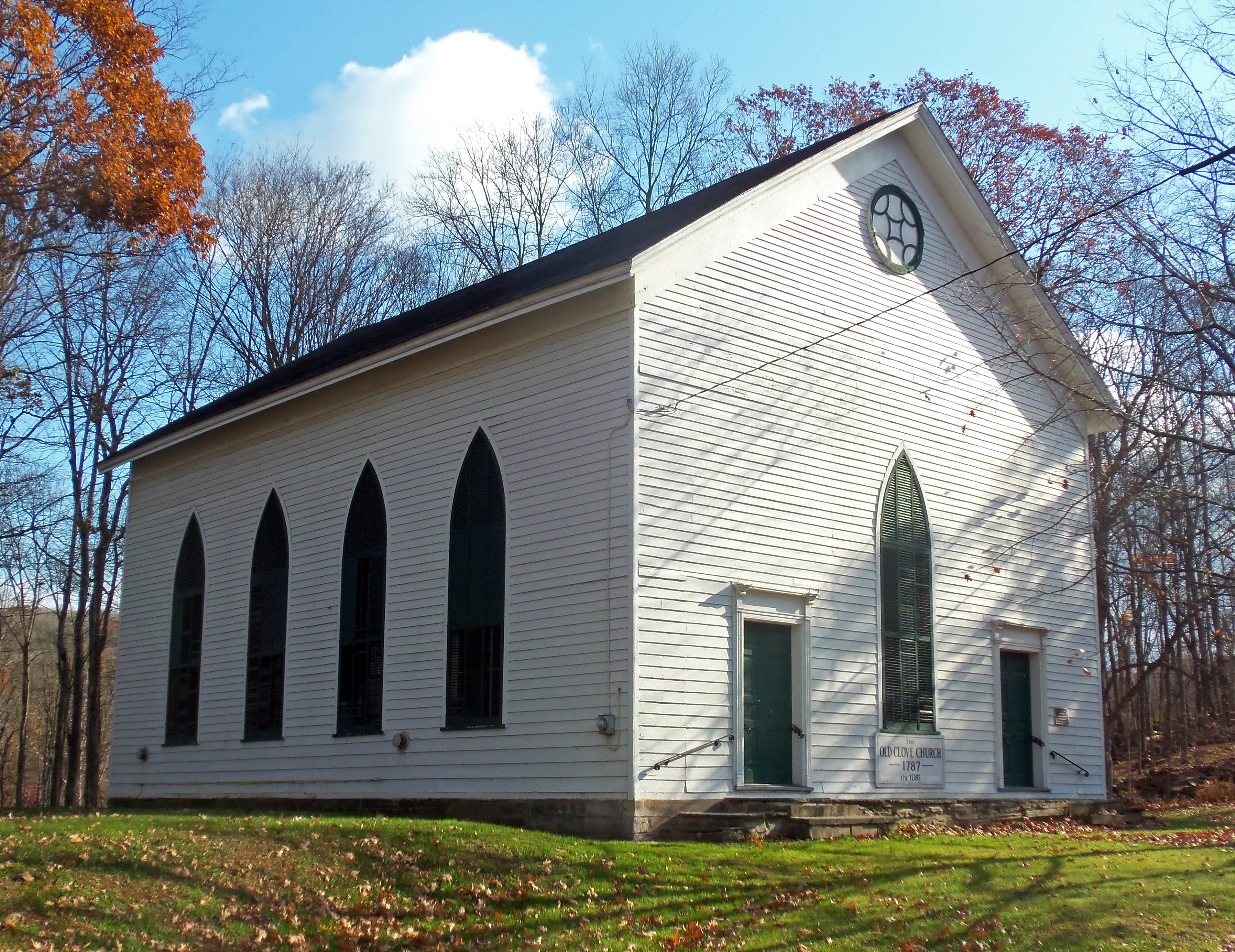 Old Clove Church, sometimes known as First Presbyterian Church of Wantage, NJ, USA